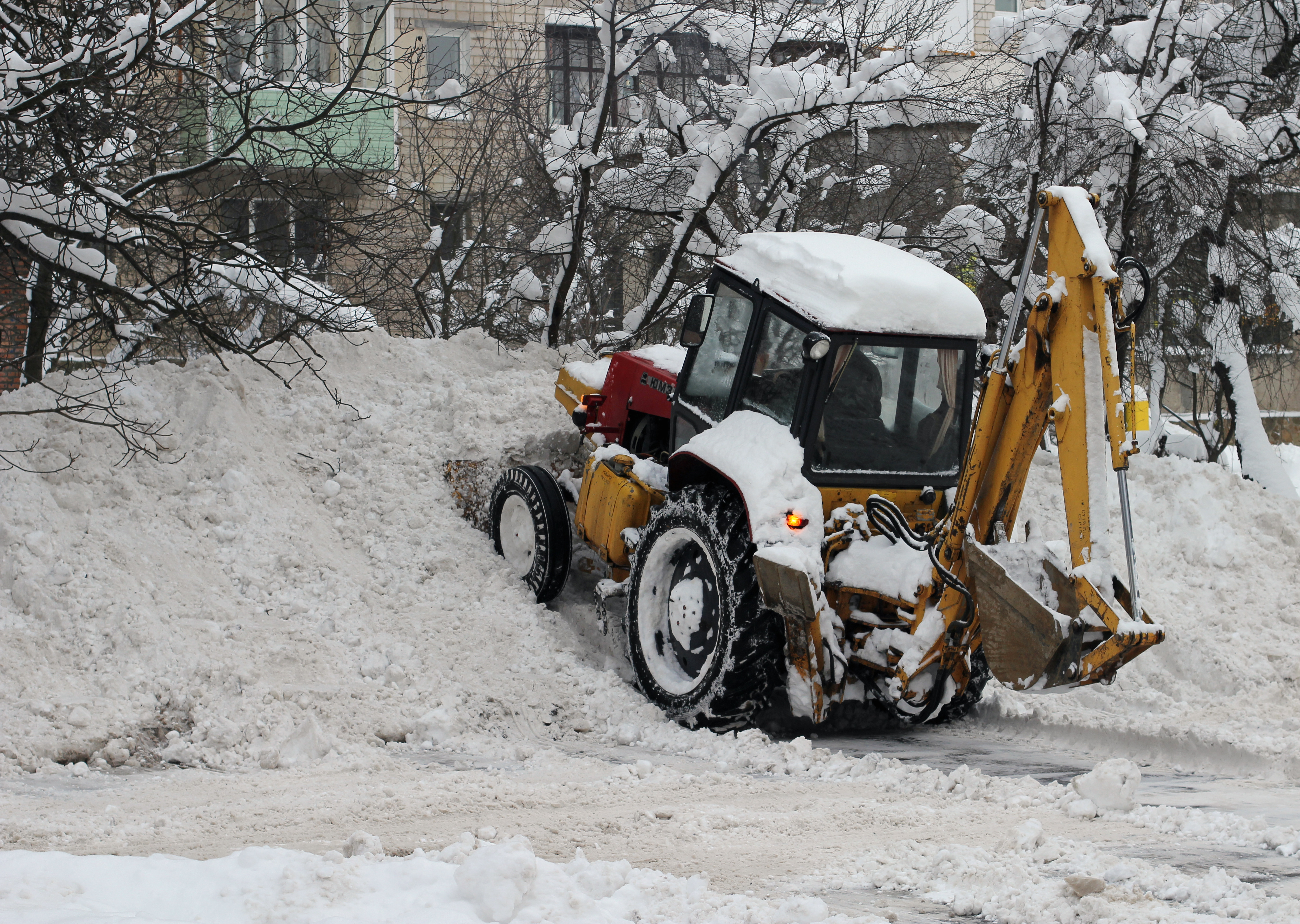 Snow removal in Vinnitsa, Ukraine. YuMZ-6 AKM 40 tractor.